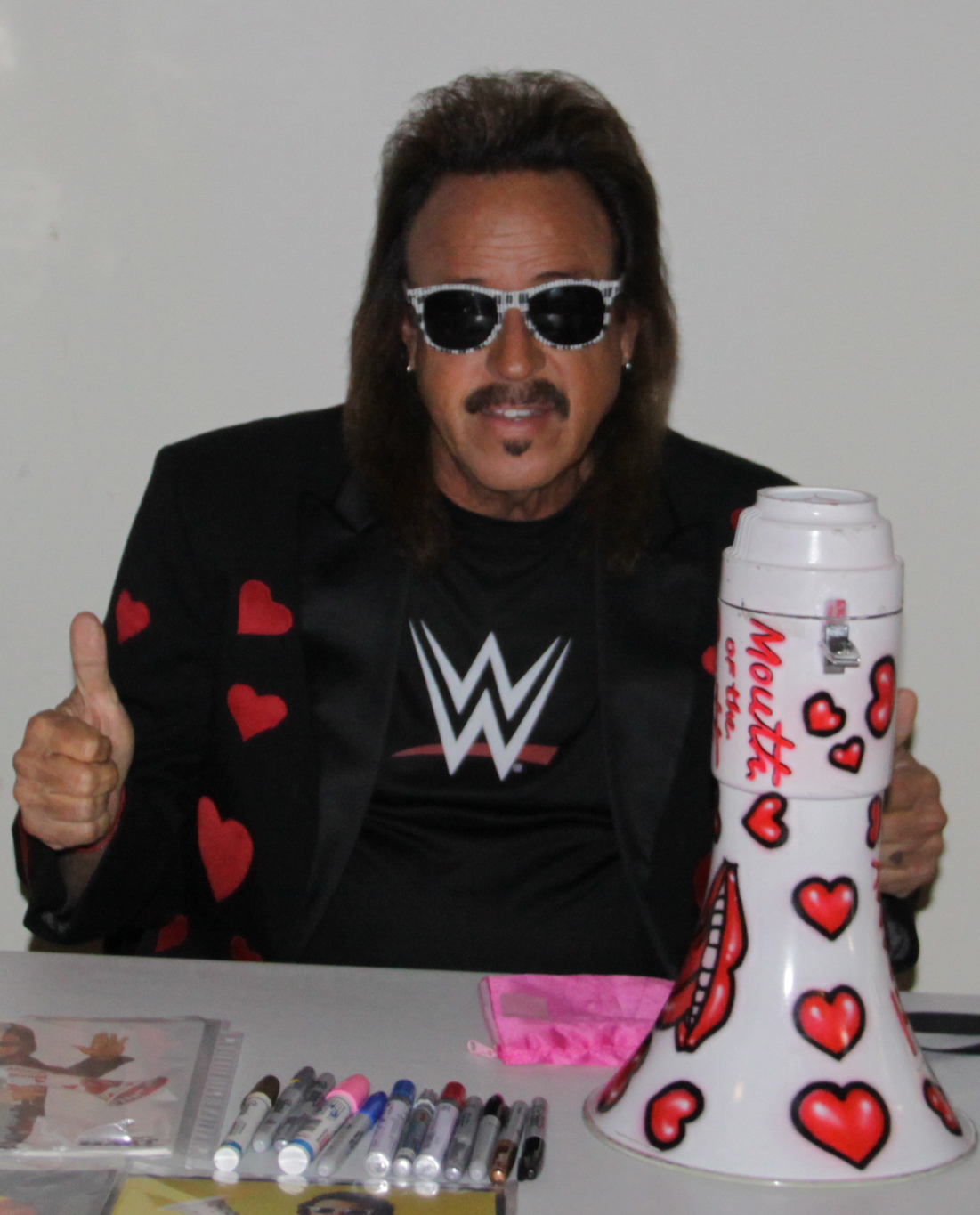 wrestling manager jimmy hart